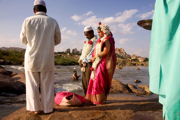 A Muslim couple being wed alongside the Tungabhadra River at Hampi, India. In the background, a Hindu man is taking his ritual bath. Urdu: ایک مسلمان دلہا دلہن ہمپی، بھارت میں تنگبدرا دریا کے کنارے نکاح کے موقع پر موجود ہیں. پس منظر میں ایک ہندو مرد غسل کر رہا ہے.